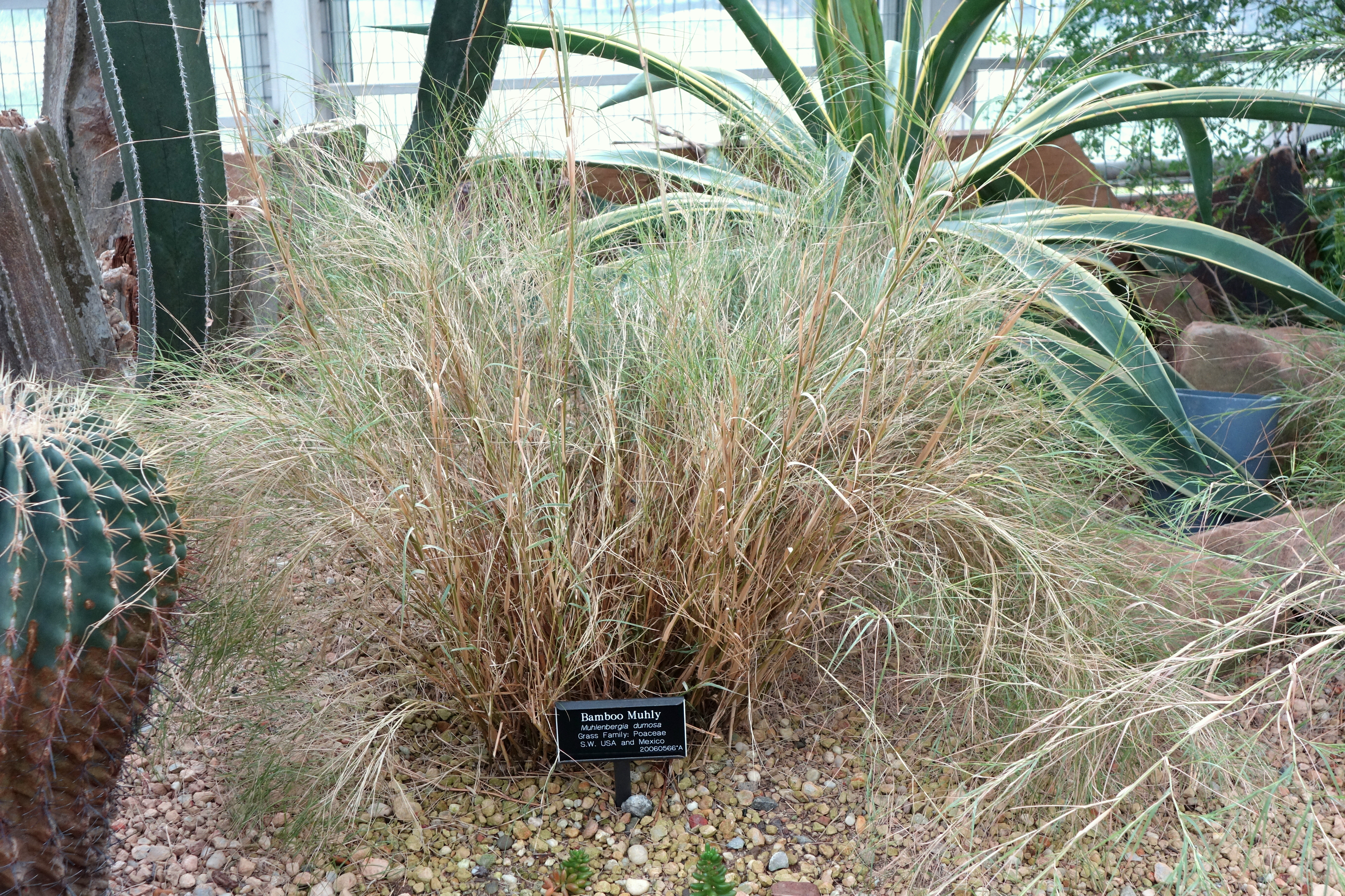 Botanical specimen in the Brooklyn Botanic Garden, Brooklyn, New York, USA.